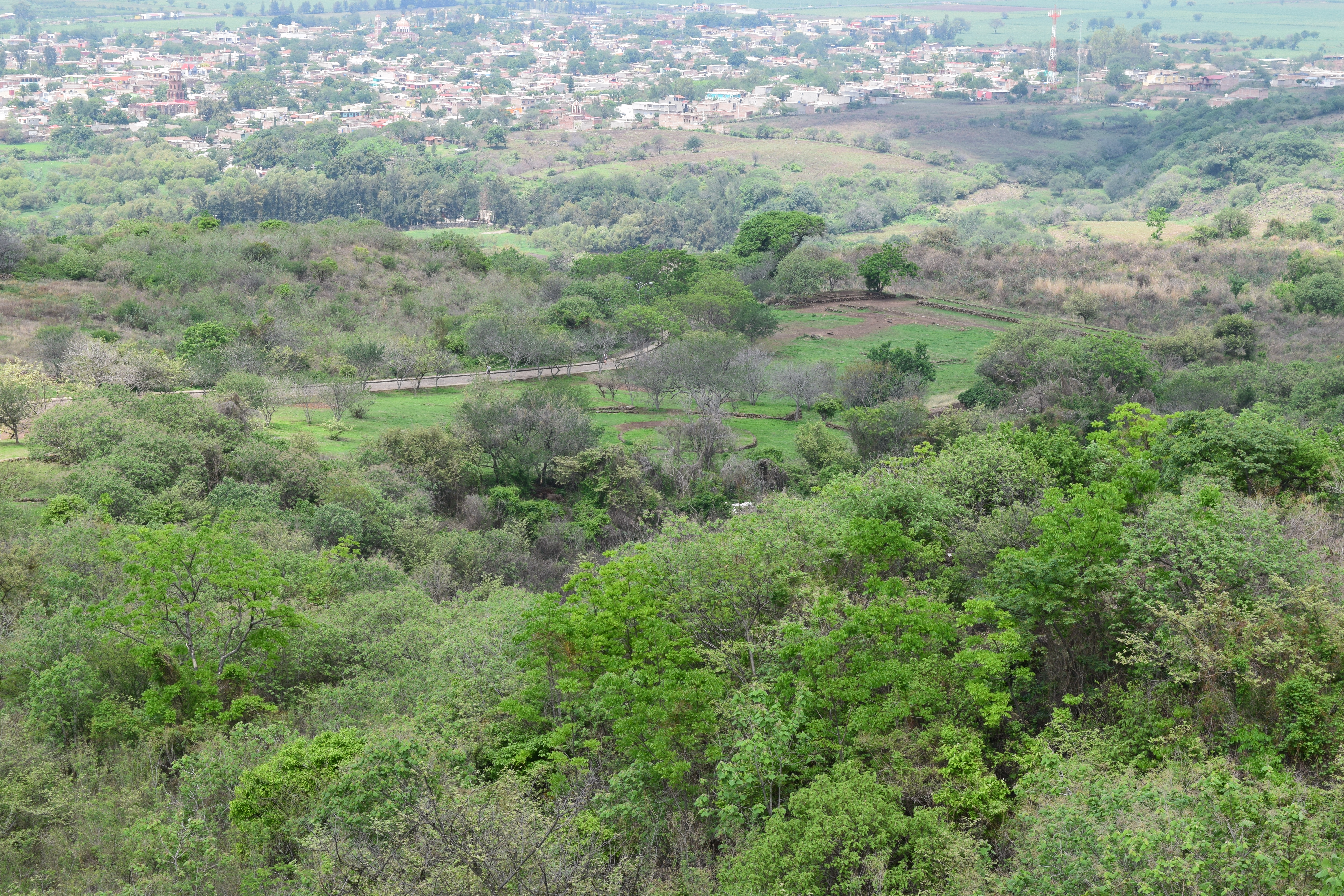 A view of Circle 6 at the site of Los Guachimontones, Jalisco, Mexico from atop a nearby hill